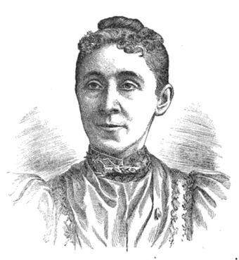 Women in the Lyceum Sarah Warren Keeler Born: Candor, Tioga County, N. Y., May 3, 1844